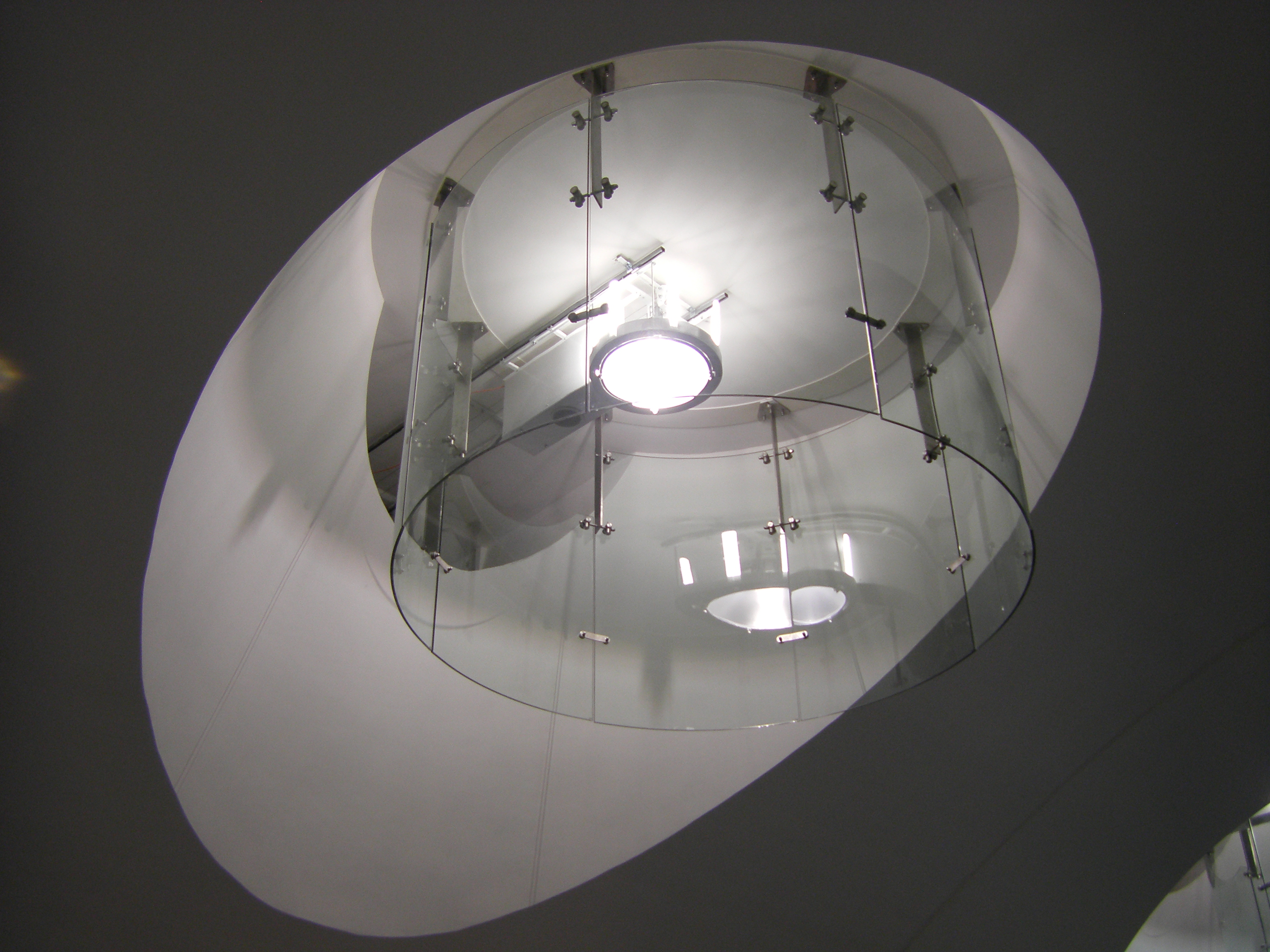 Light niches at "Borisovo" station